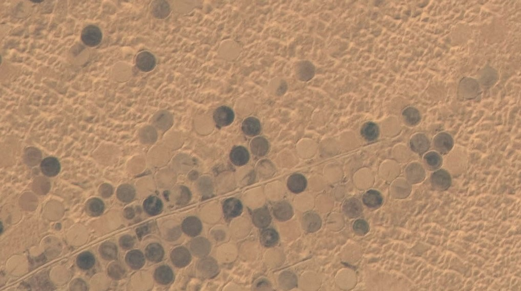 El Oued crop pivots, NASA photograph. Cropped and filtered